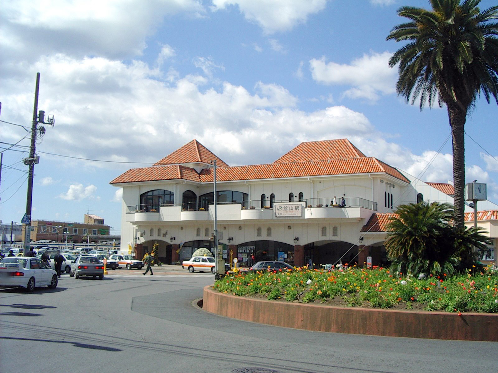 Tateyama station on Uchibo line